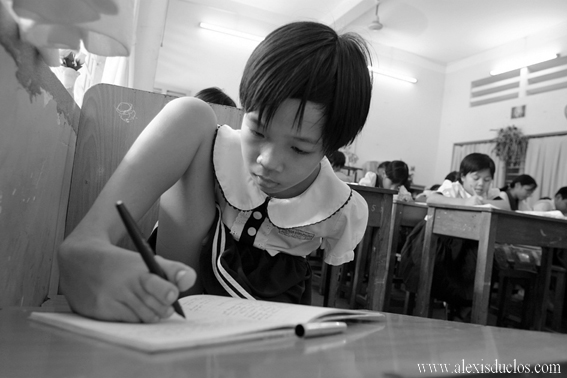 Ho Chi Minh. At the school Phan Dinh Phinho Tu Du, Pham Thi Thuy Ling, a young girl of 10 years old, born without arms, writes in her schoolbook.